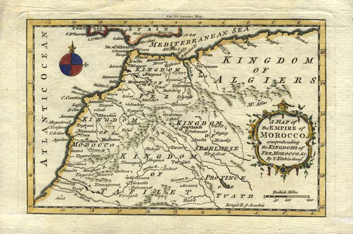 Map of the Empire of Morocco, 18th century. “A Map of the Empire of Morocco Comprehending the Kingdoms of Fez, Morocco, Etc. By T. Kitchin. Geogr.” London. 1760. Colored. 4¼X7. The map shows the Kingdoms of Morocco and Fez, Tafilet and Segelmese depicting towns, harbors and settlements. Locates the Straits of Gibraltar and the Mediterranean Sea and the southern coasts of Spain and Portugal. Includes a colorful compass rose and a decorative title cartouche with leaves, flowers, and scrolls in bottom right. Published in the London Magazine in 1760 it was engraved by Thomas Kitchin one of London's premier engravers.